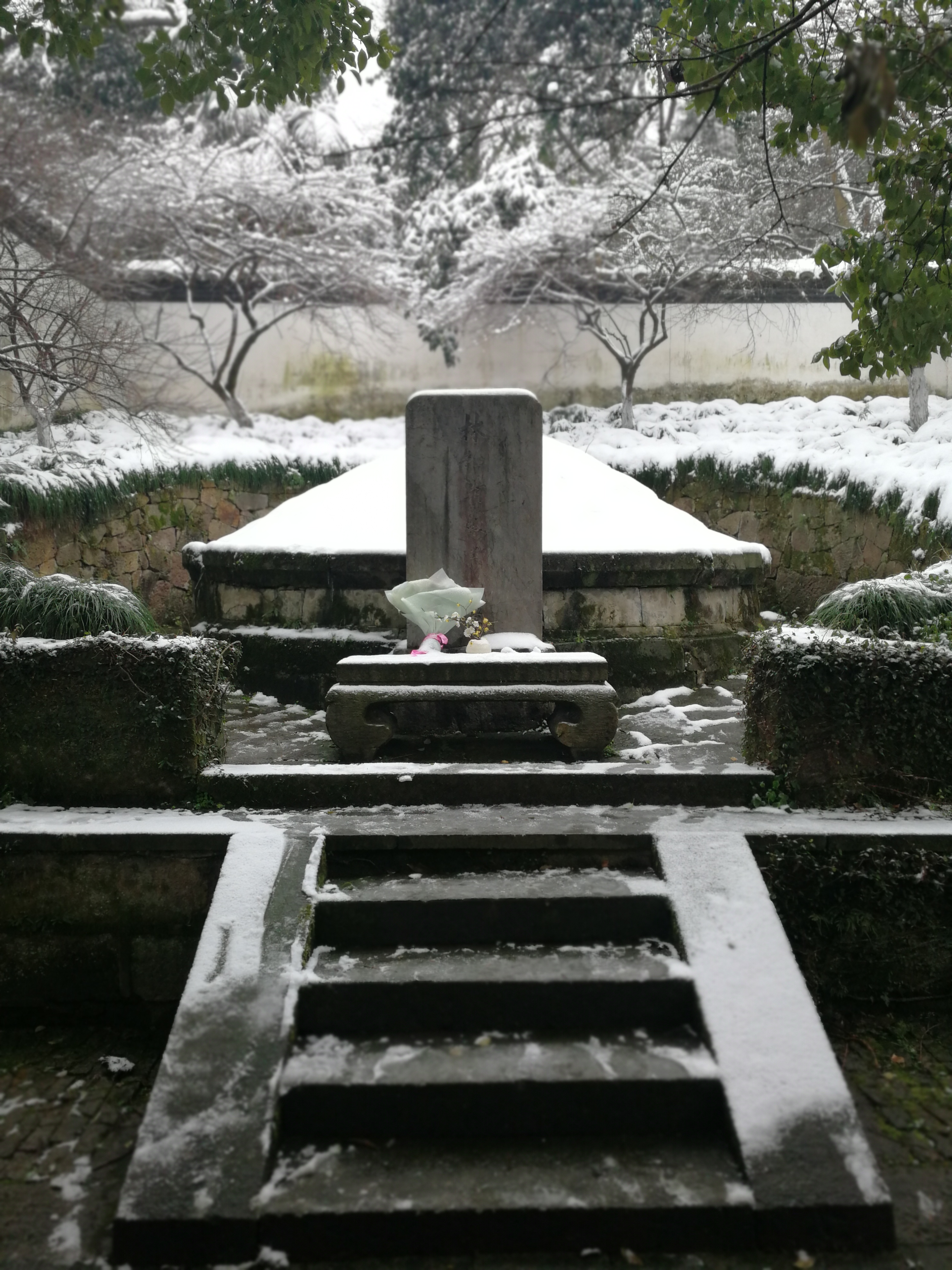 Tomb of Lin Bu